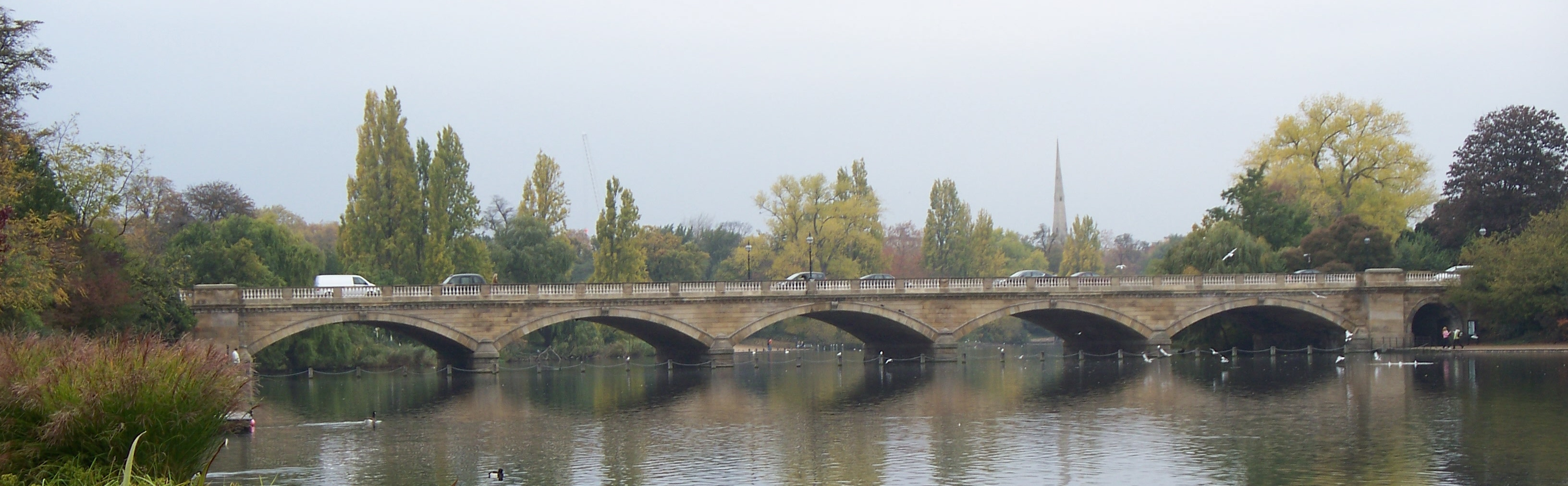 Serpentine Bridge, London